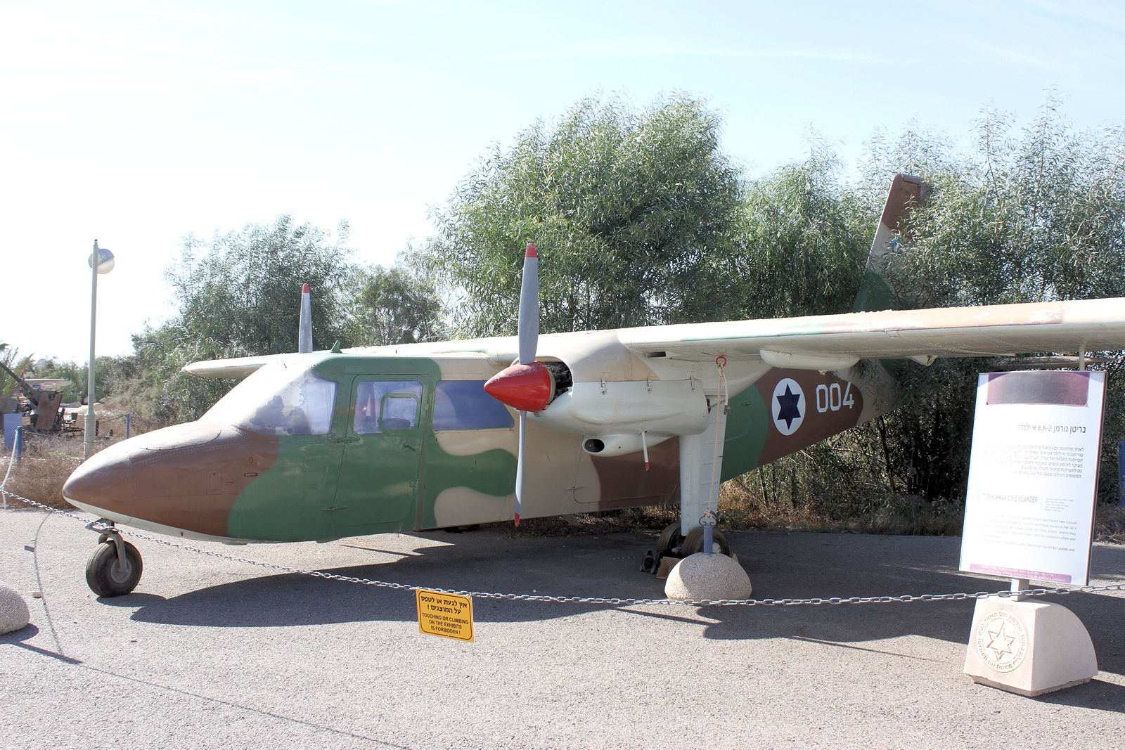 4X-FMD PBN BN-2A Islander (285) at IAF Museum Hatzerim